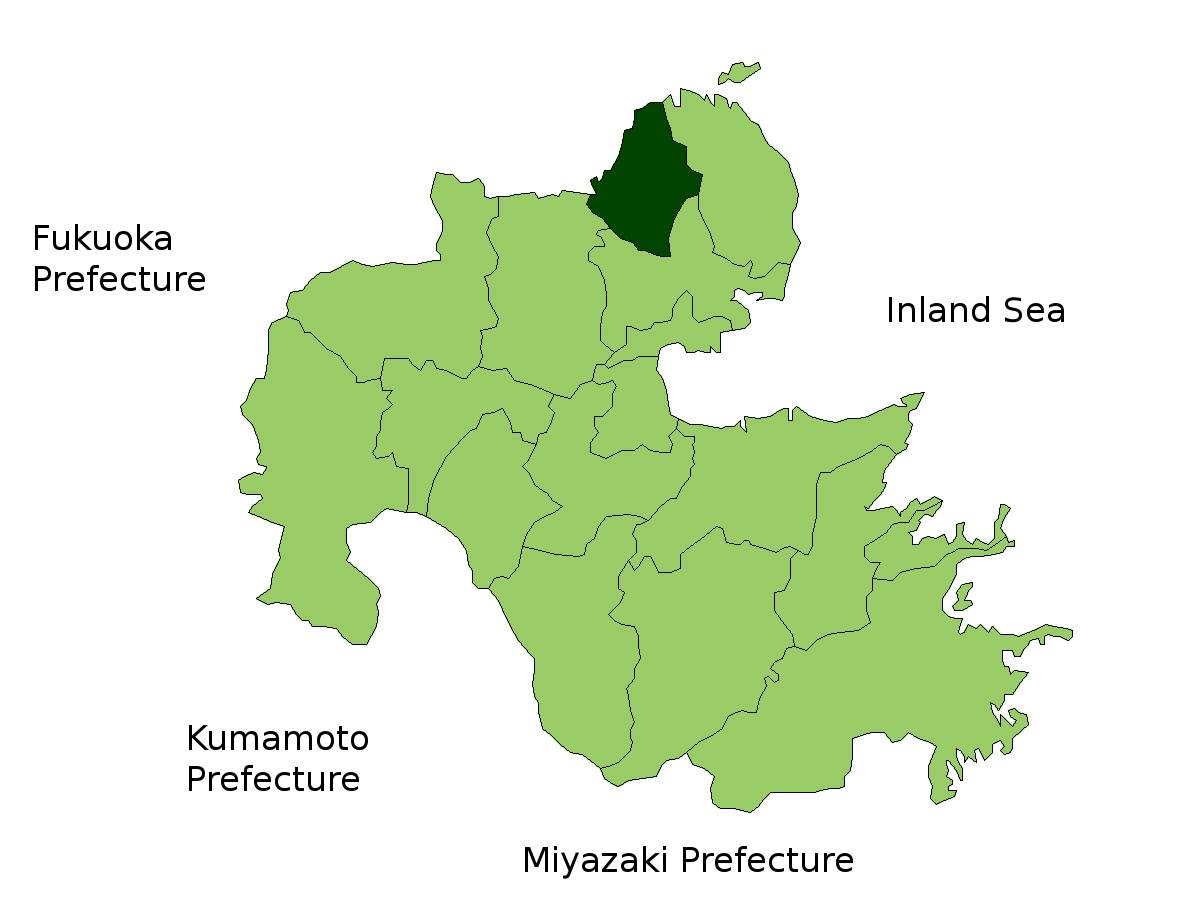 Location Map of Bungotakada in Oita Prefecture, Japan